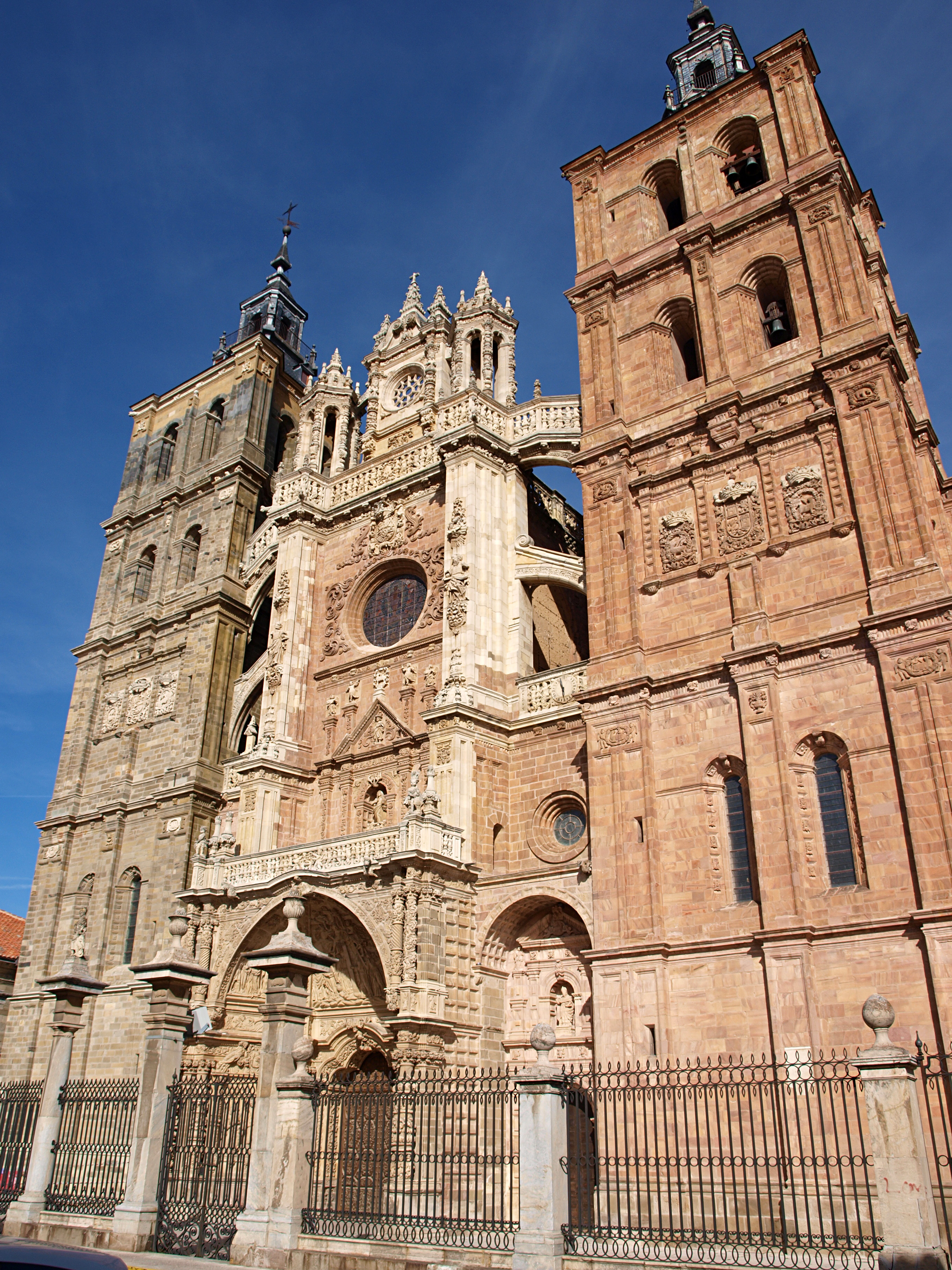 Astorga Cathedral, Astorga (Province of León, Spain).